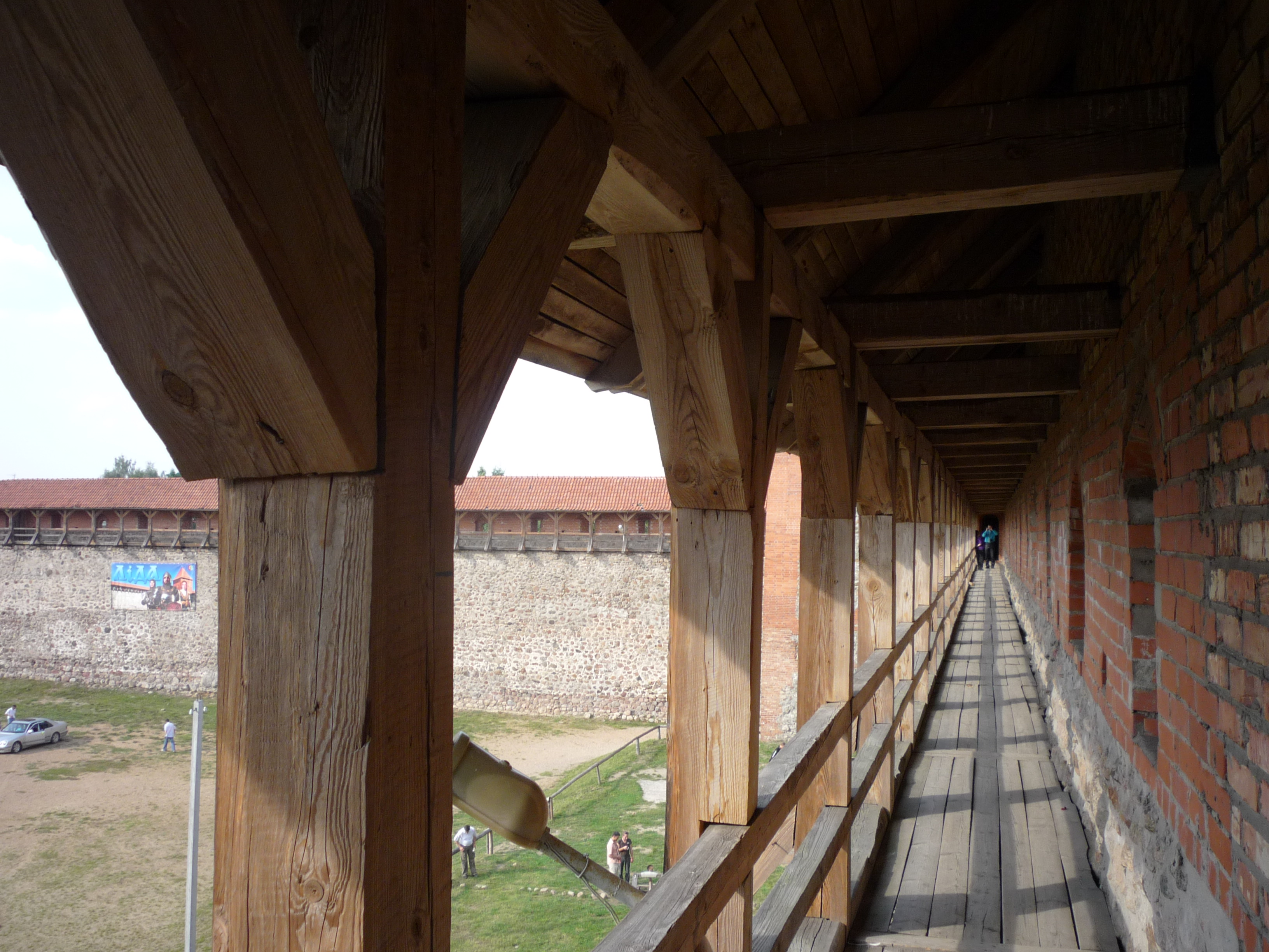 Беларуская (тарашкевіца): Замак. г. Ліда This is a photo of Belarusian heritage monument. Reference number: 411Г000328 ( WLM)